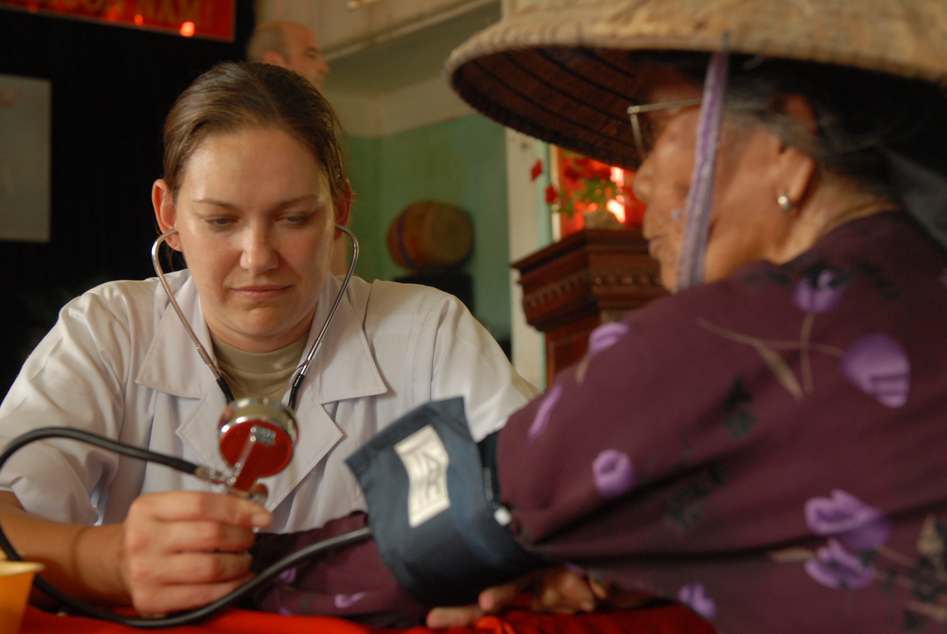 Sgt. Lisa Maynes, a health care specialist from Tripler Army Medical Center, Hawaii, takes a patient's vitals during the first MEDRETE held in the Bac Ninh Province of Vietnam. See more at First joint U.S.-Vietnamese medical readiness exercise continues